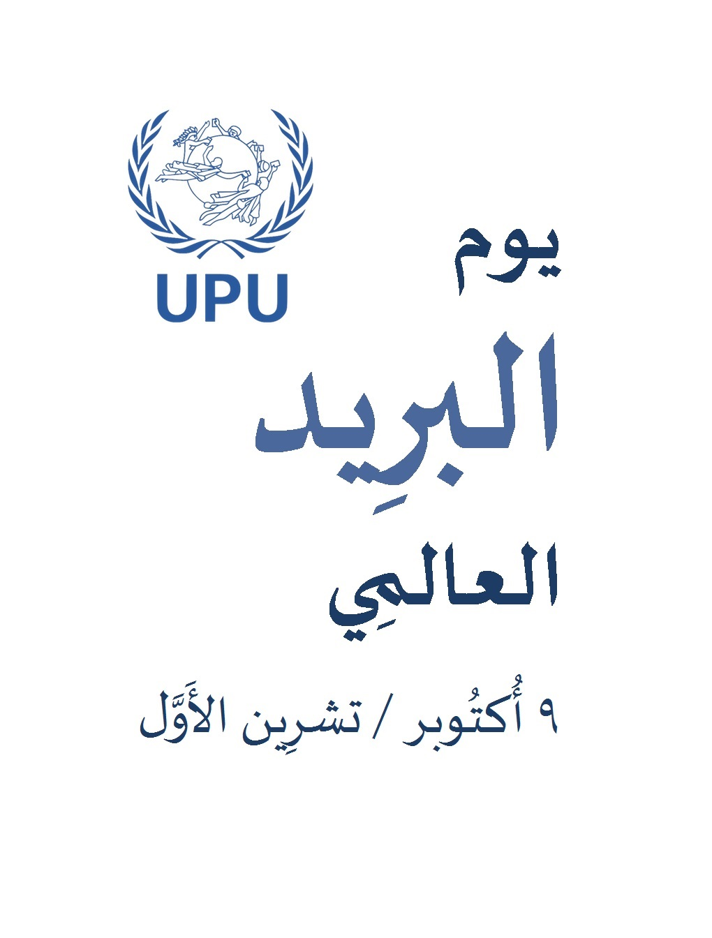 World Post Day Unofficial Logo Аҧсшәа: الشعار غير الرسمي لليوم العالمي للبريد